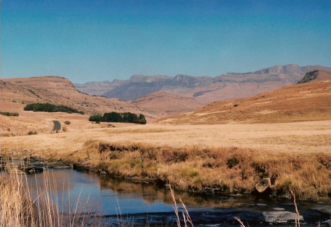 The Drakensberg and the Tugela river